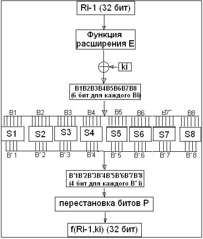 scheme function F